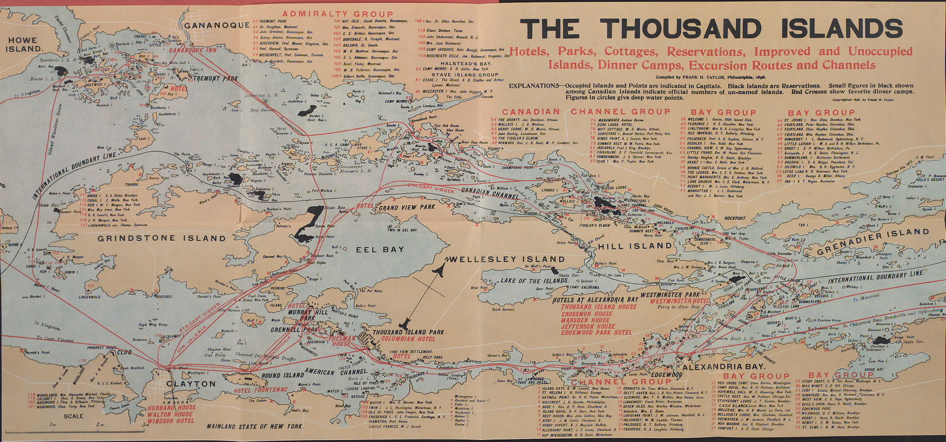 touring map of the Thousand Islands, a 33 by 66 cm map